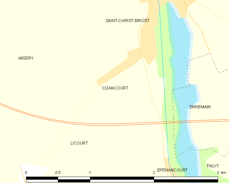 Map of French municipality Cizancourt